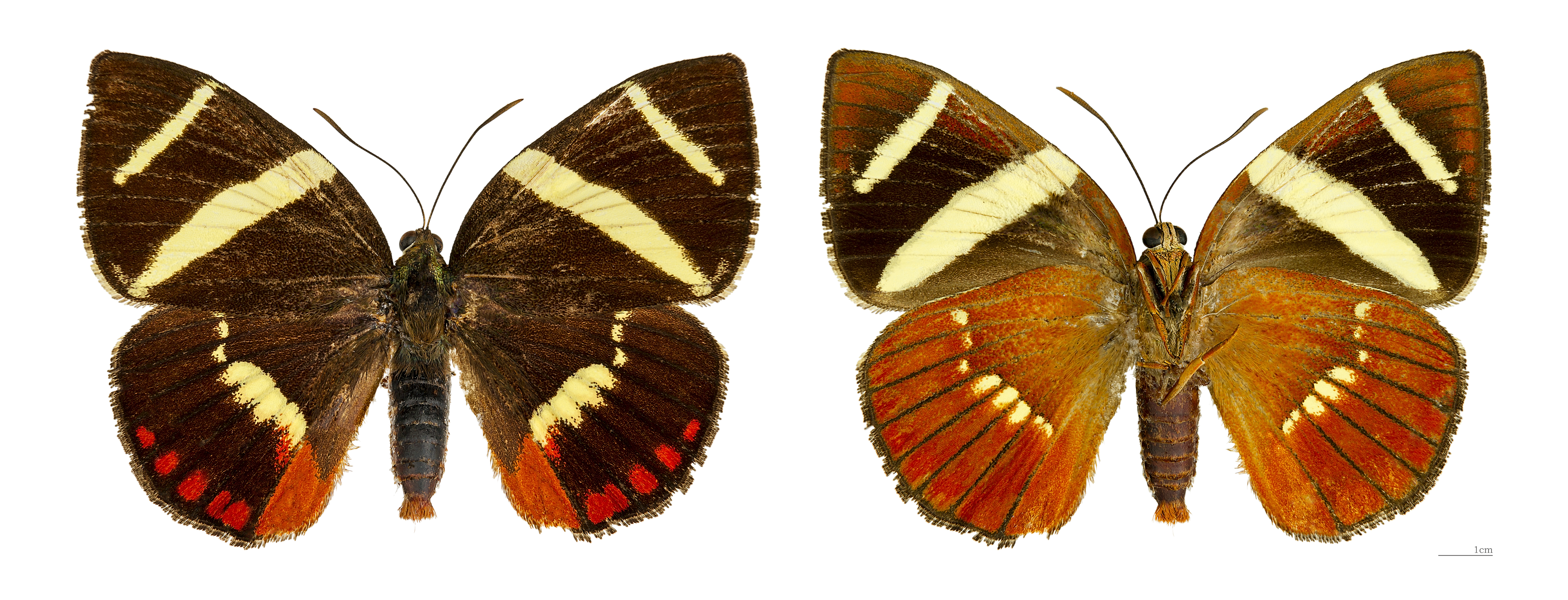 Xanthocastnia evalthe - Two views of same specimen